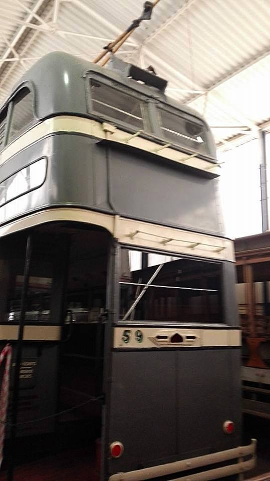 Rear end of the Durban Trolleybus Nr. 59, where the rack for the fishing rods is located. Seen in James Hall Museum of Transport, Johannesburg, South Africa